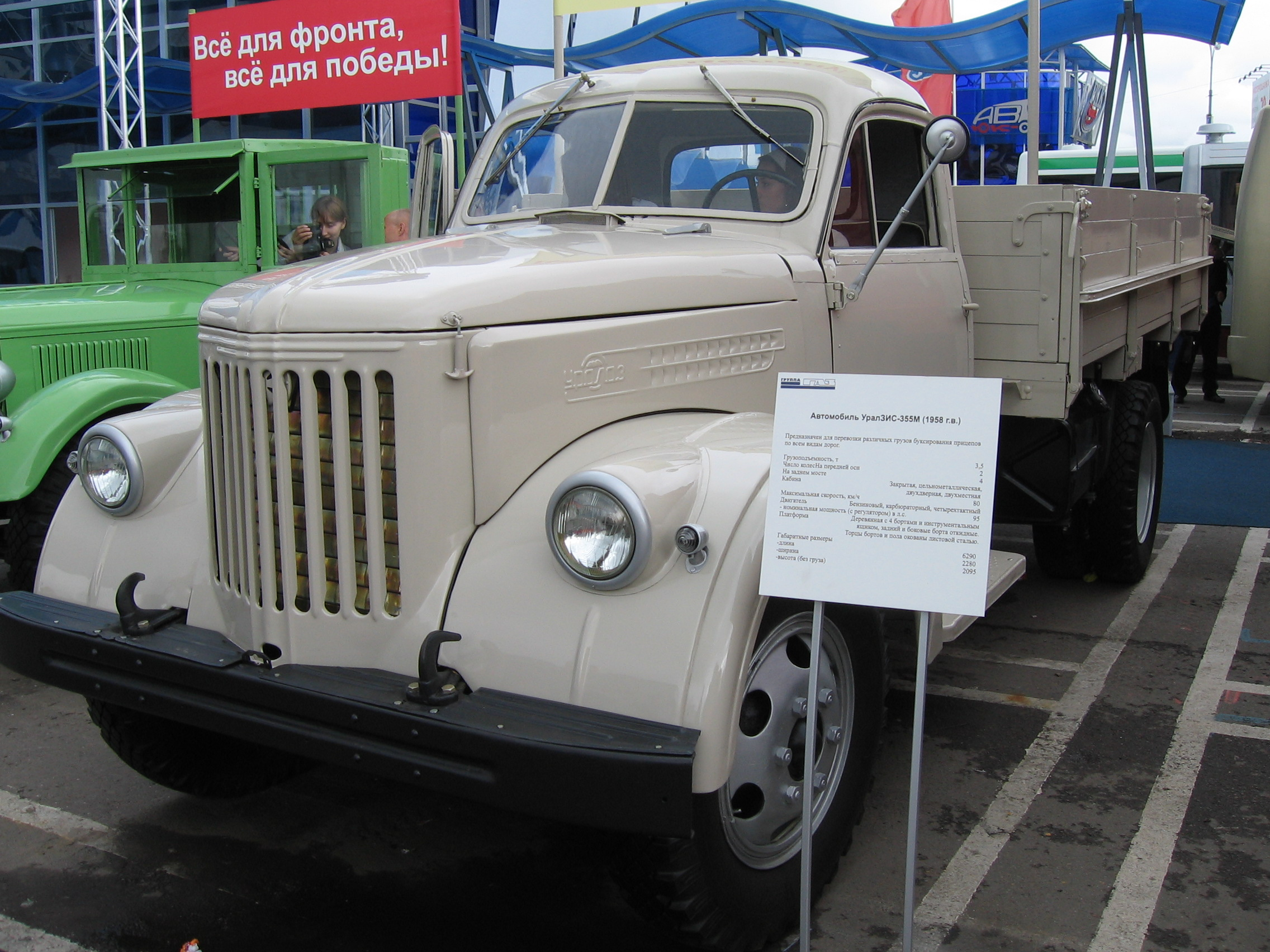 UralZis 355m 1958 УралЗис 355м 1958г.